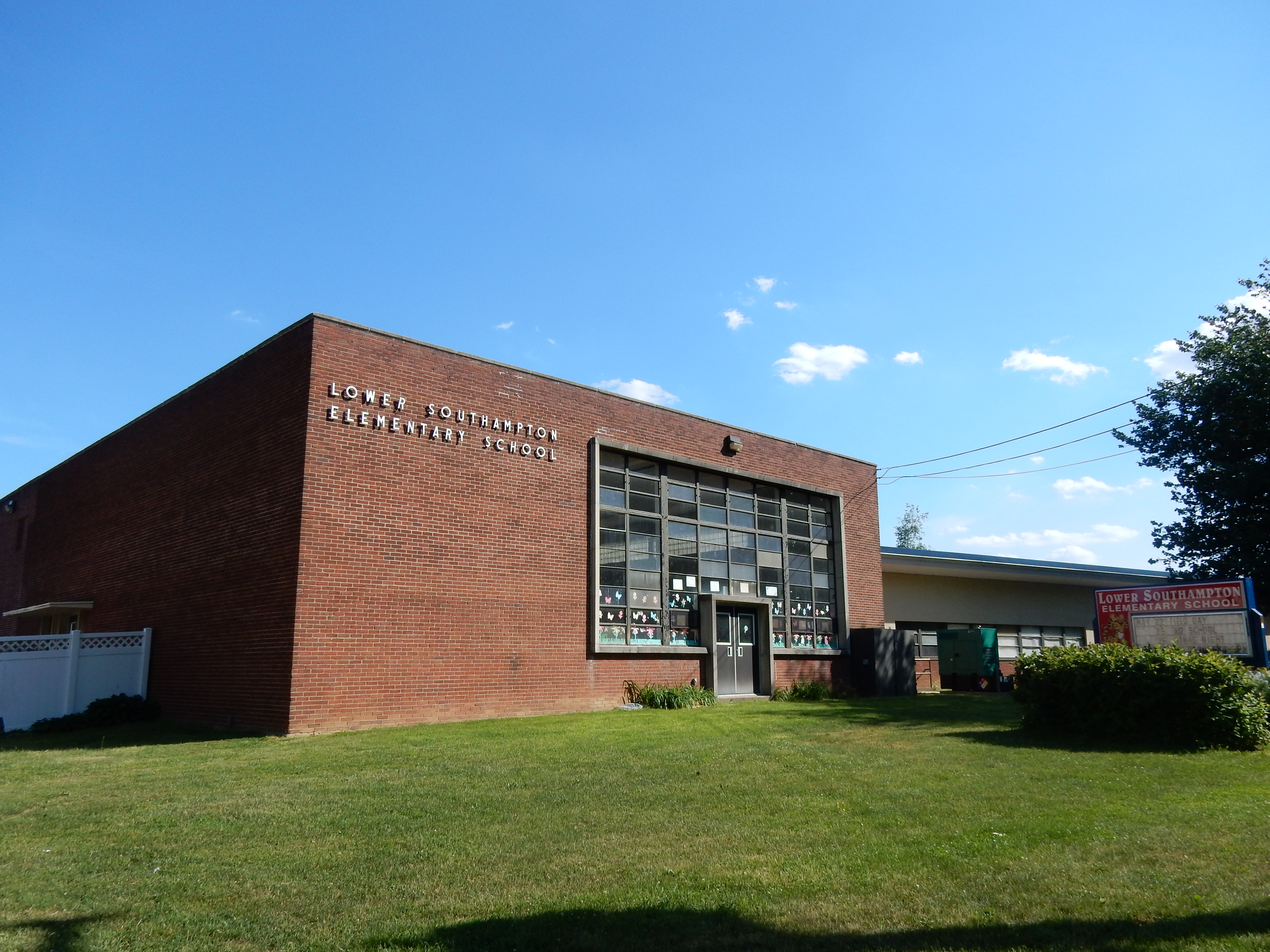 Lower Southampton Elementary School, 7 School Ln., Feasterville, Bucks County, Pennsylvania